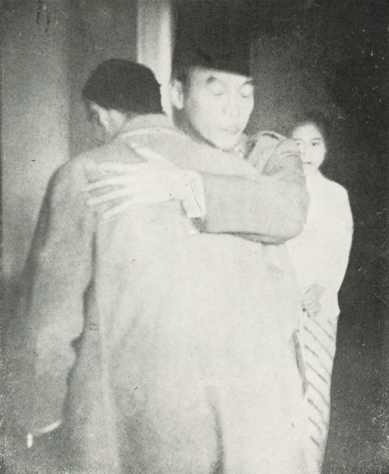 Sudirman hugging Sukarno, Kota Jogjakarta 200 Tahun, plate after page 80